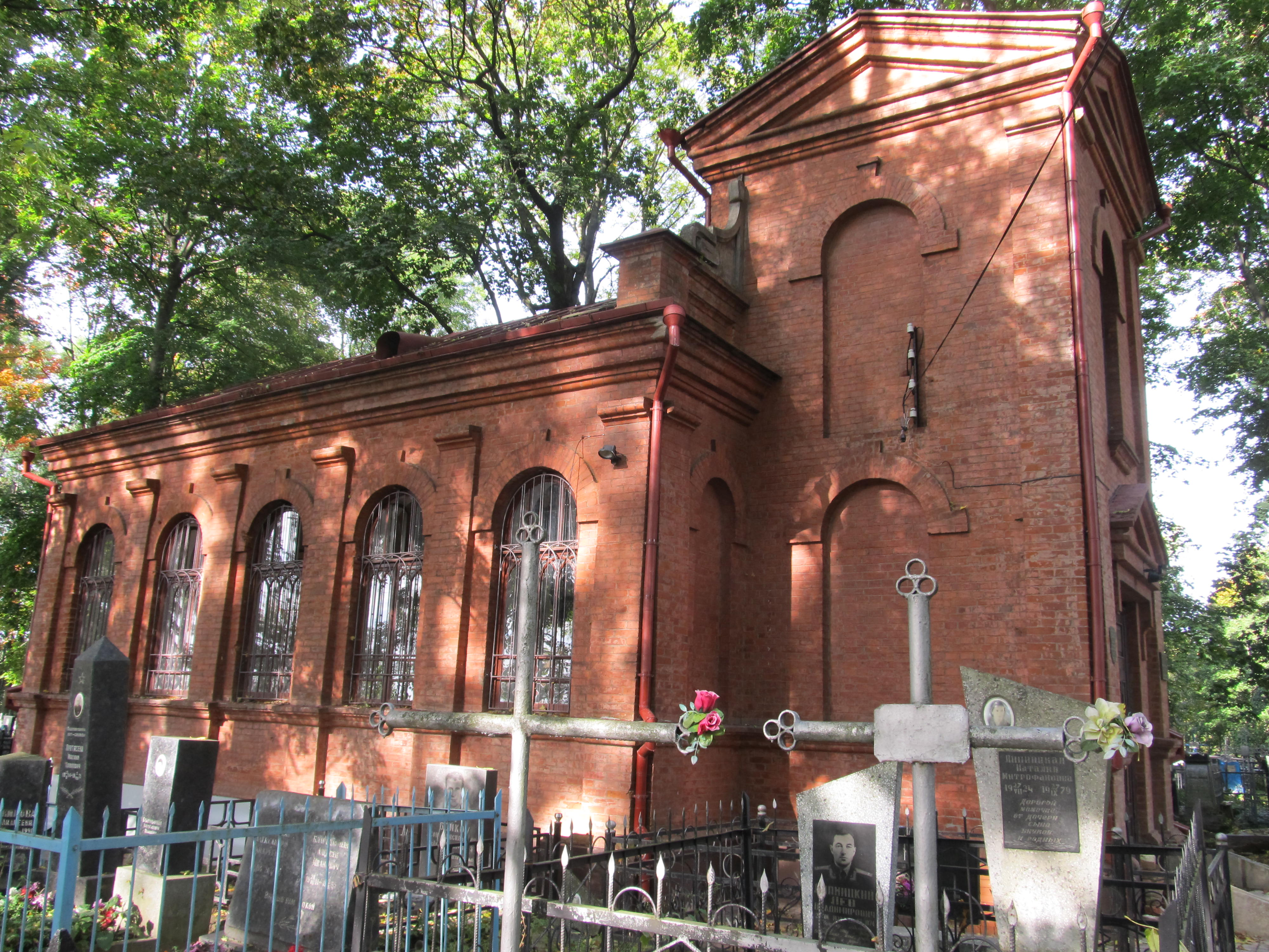 A chapel on catholic cementry in Mogilev, BelarusБеларуская (тарашкевіца): Капліца на каталіцкіх могілках. г. Магілёў This is a photo of Belarusian heritage monument. Reference number: 512Г00058З ( WLM)